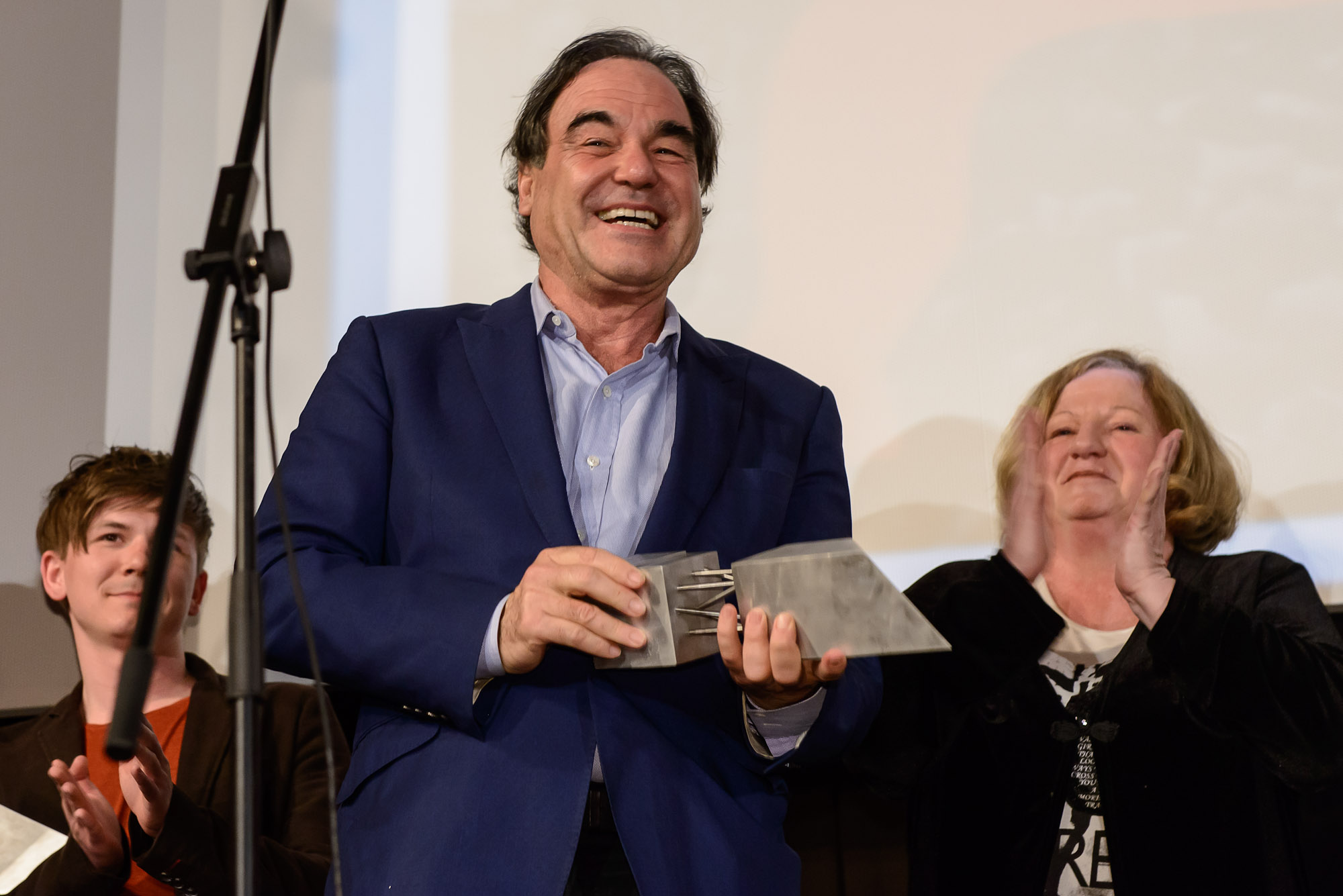 Oliver Stone speaking on Subversive Festival 2013 in Zagreb.